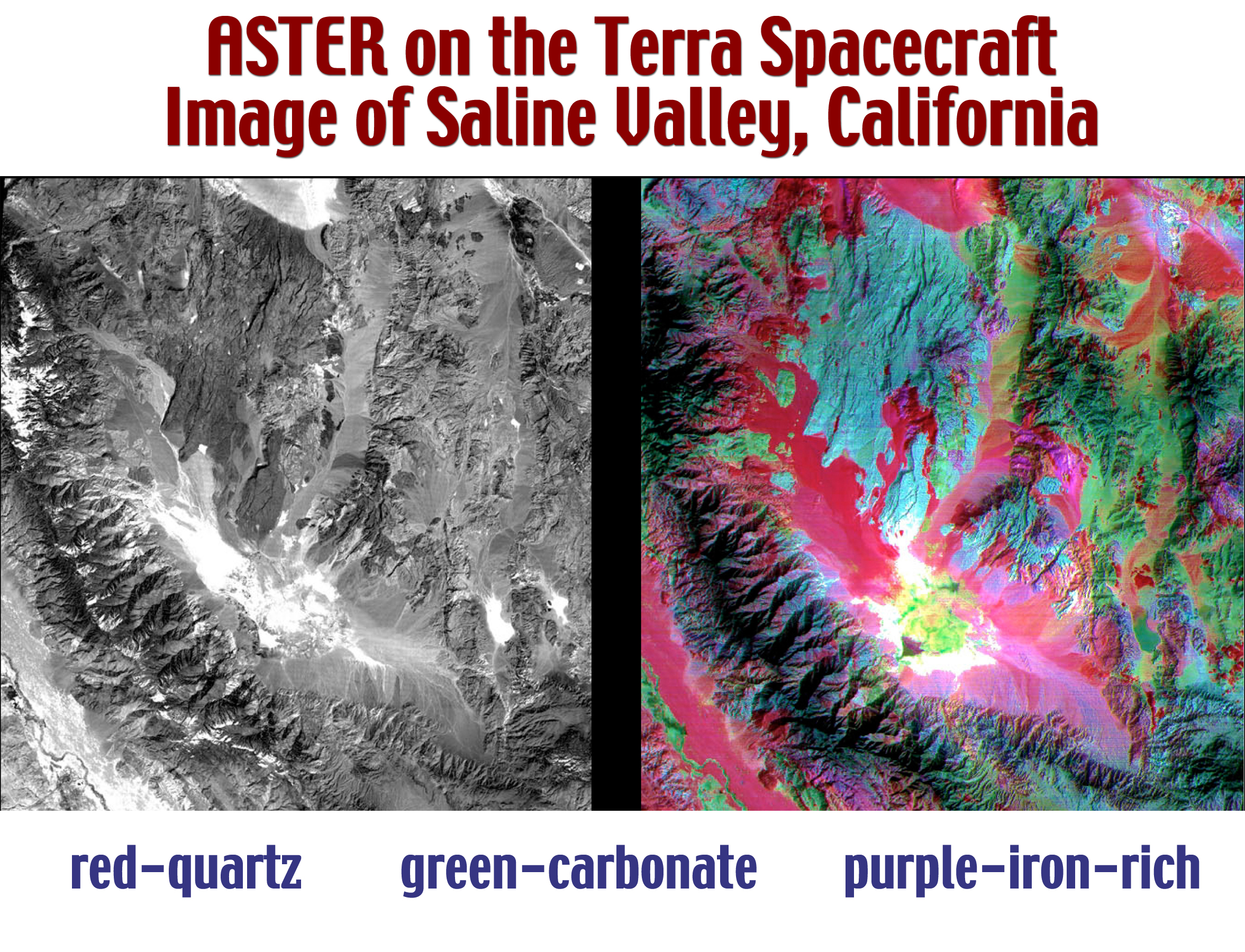 Image of Saline Valley, California, taken by the Terra satellite's ASTER instrument.